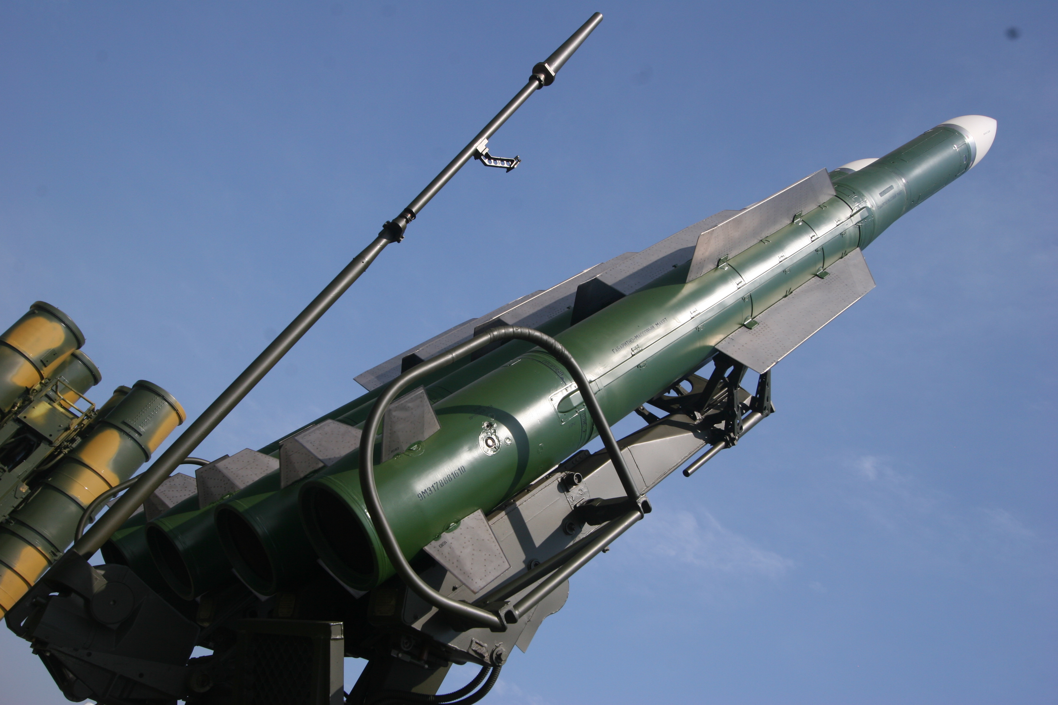 New surface-to-air missile 9M317 of 9K317 Buk-M2E at 2007 MAKS Airshow